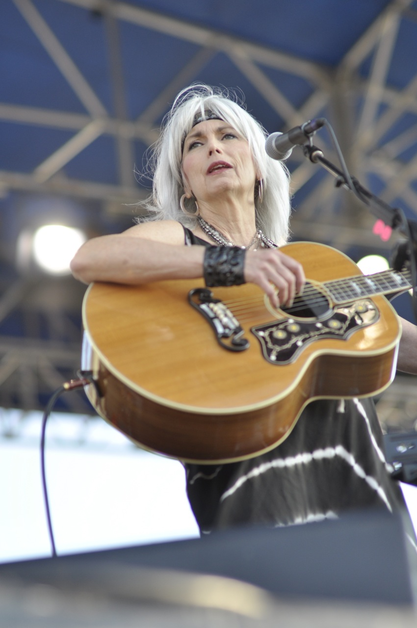 July 31, 2011 Newport Folk Festival 2011